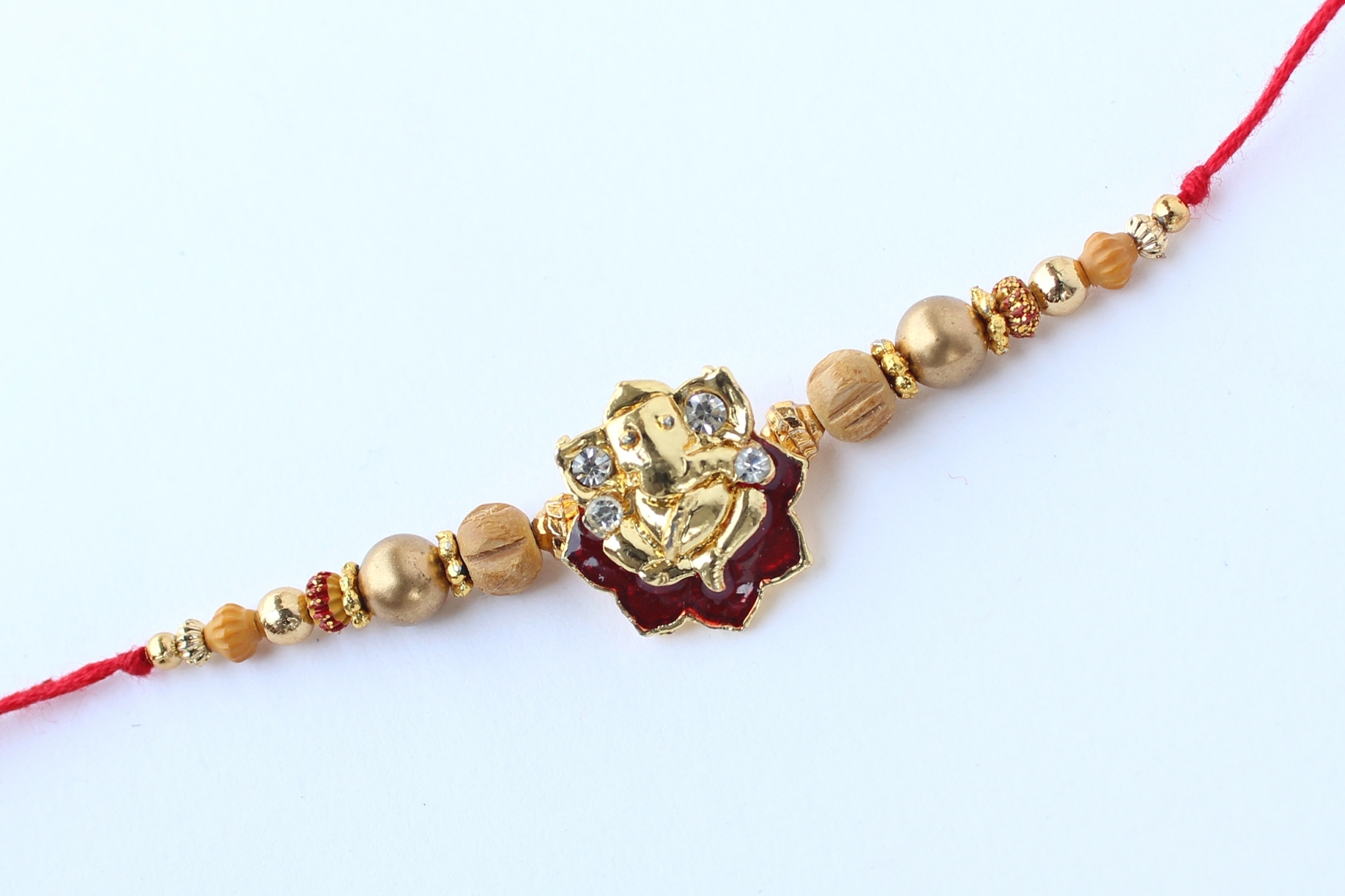 Ganesha in Rakhi